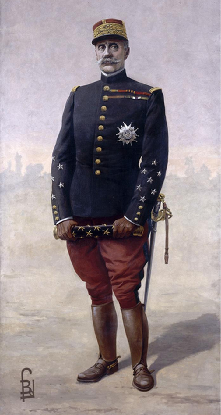 Marshal Foch (1851–1929) by Louis Bombled (1862-1927)